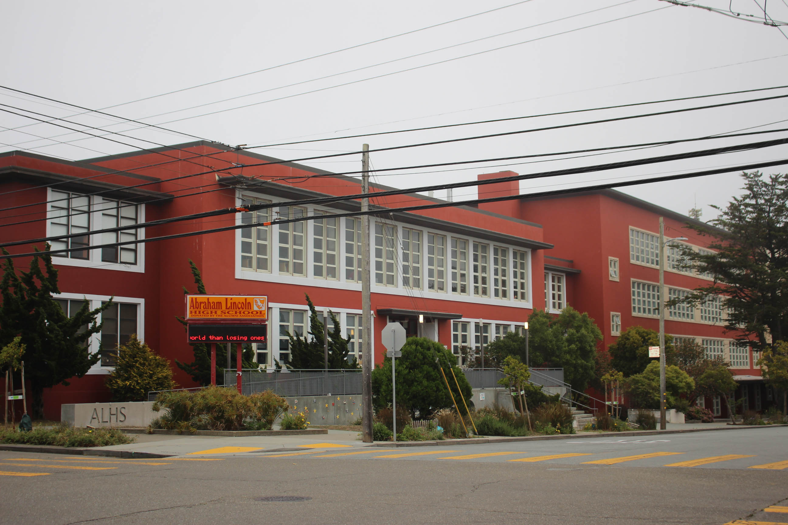 The intersection of 24th Avenue and Quintara Street in Sunset District, San Francisco, California, USA. Abraham Lincoln High School (ALHS) visible in midground with electronic sign board.